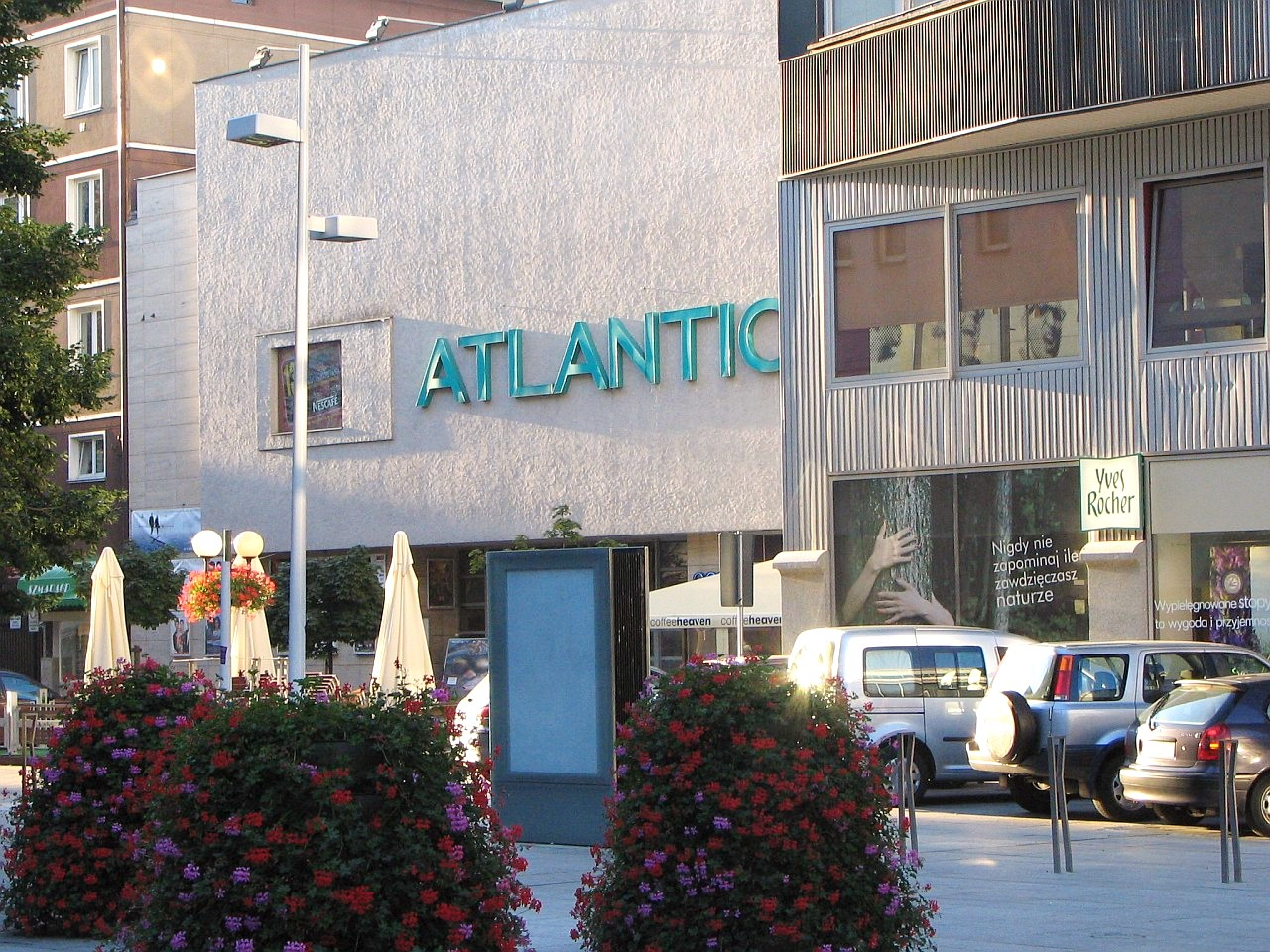 Kino Atlantic